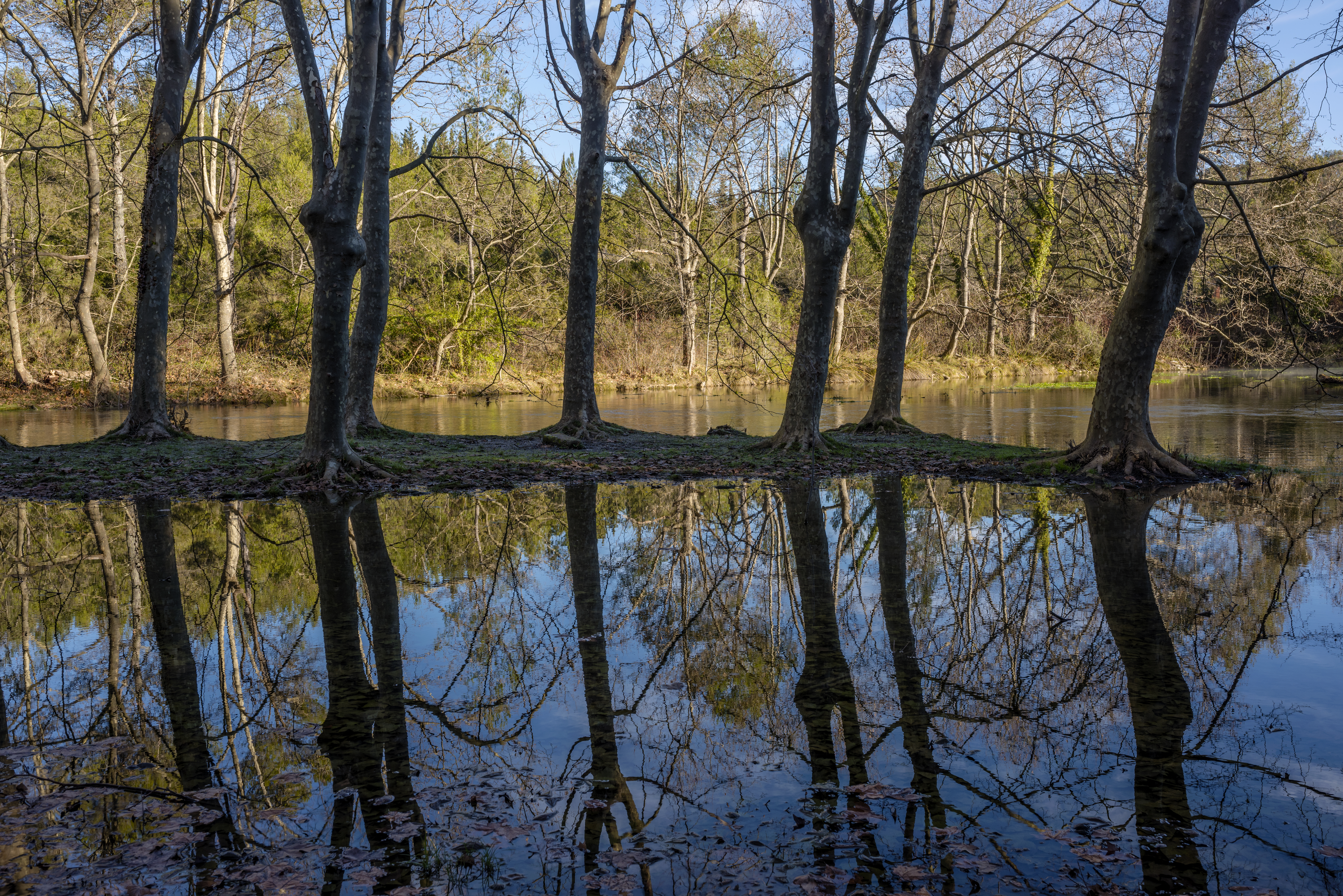 Platanus × hispanica (London plane trees) reflections in the Lez River. Commune of Saint-Clément-de-Rivière, Hérault, France